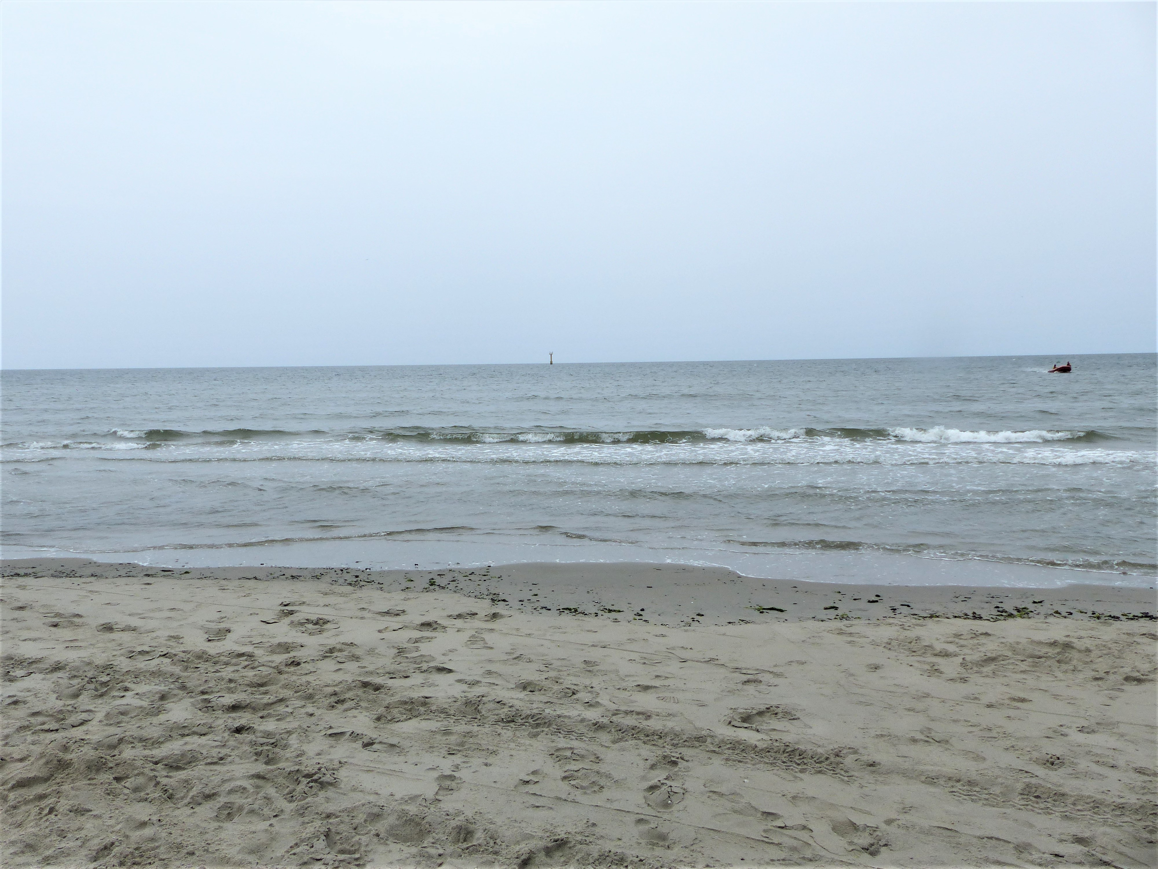 Strand Paal 21, De Koog, Texel island on the 9th of August, 2018. The Kingdom of the Netherlands. The North Sea in front of us.